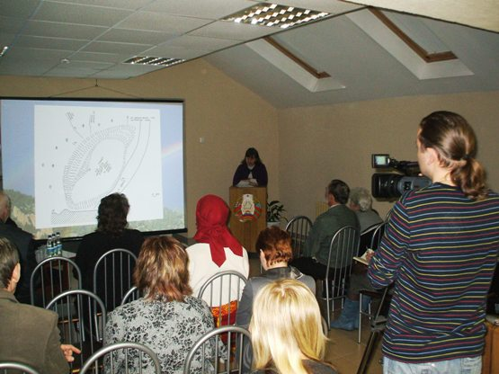 Šacilki Readings Third Scientific and Practical Conference in Svietlahorsk, Homiel Region, Belarus. April 15, 2011.